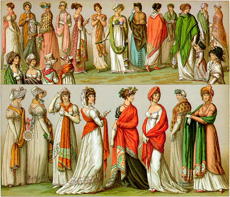 A lithograph plate showing a variety of ways of wearing shawls in early 19th-century France (ca. 1802-1814); redrawn from various early 19th-century sources by Durin for Albert Charles Auguste Racinet's Le Costume Historique (1888). Racinet lived 1825-1893.